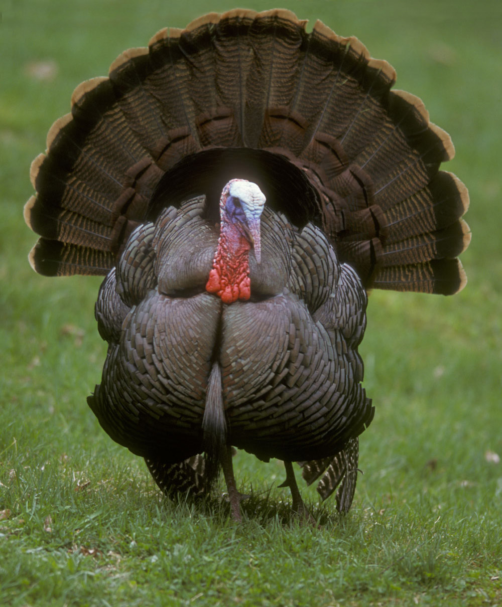 A Wild Turkey during mating season